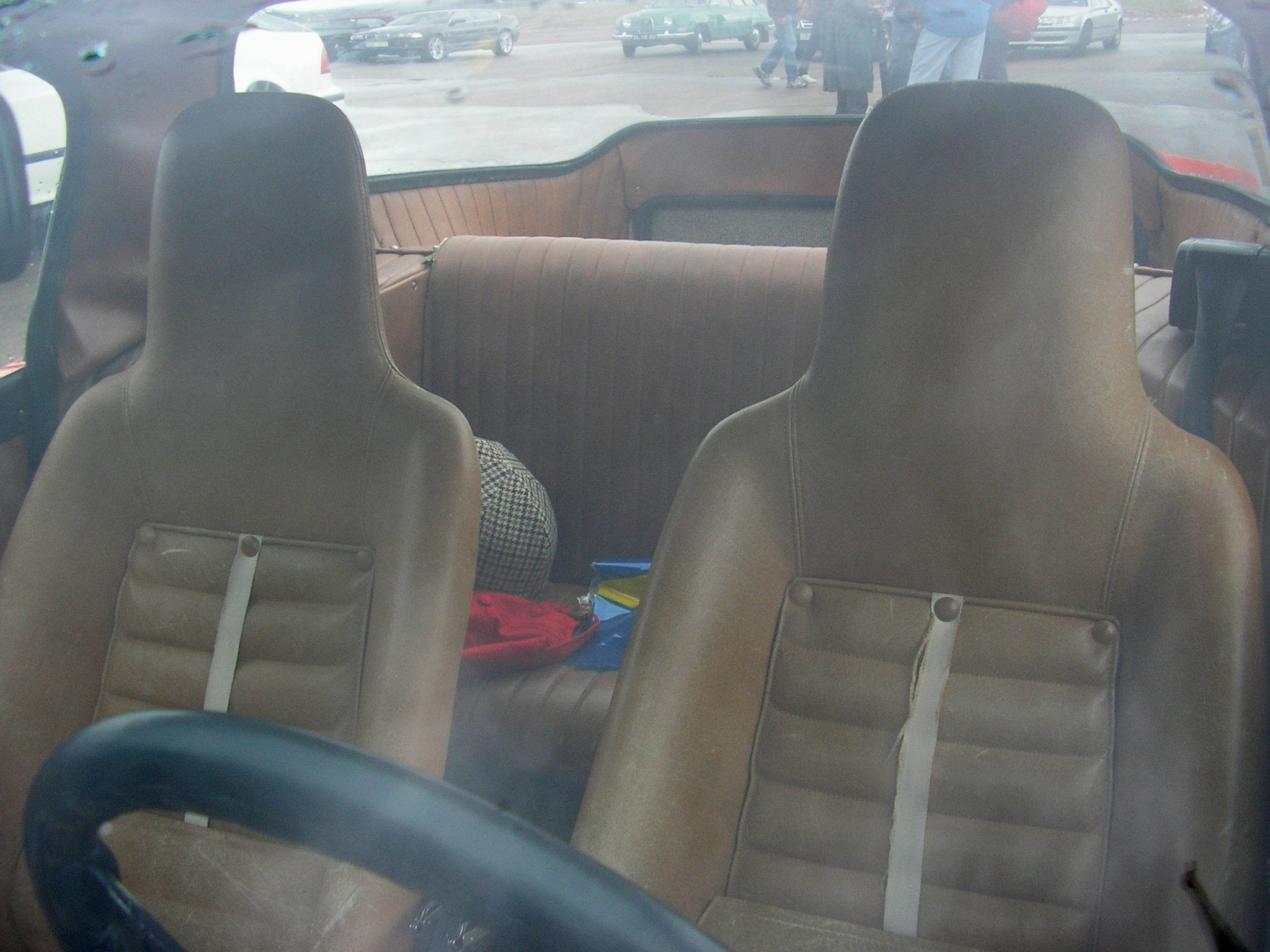 A custom SAAB Sonett mk2. It was used as test car at the factory and was equipped with a rear seat making it a 2+2. There are three known Sonetts with rear seat. The conversion was made possible by removing the spare wheel and moving the gas tank to where the wheel used to be. This car has also been upgraded from a Sonett mk2 with many details from the Sonett mk3. For instance it has the V4 engine and floor mounted gear stick.